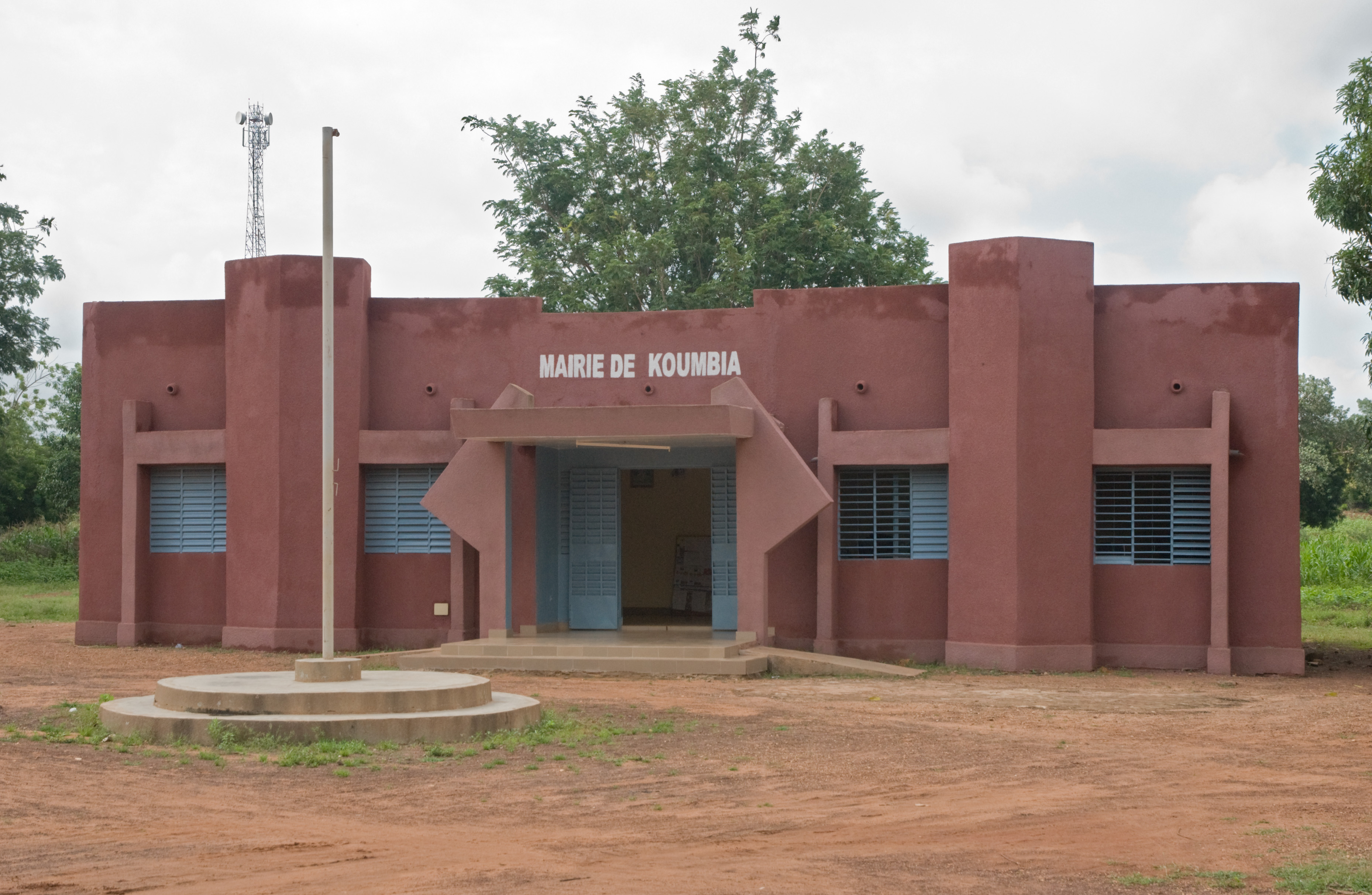 The town hall of the rural community Koumbia (August 2017)